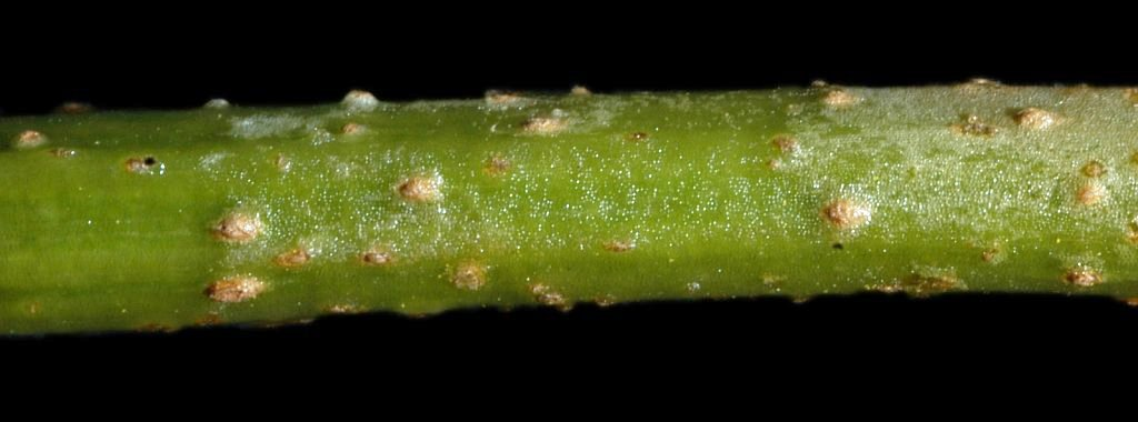 Shoot of elder (Sambucus nigra) with lenticels